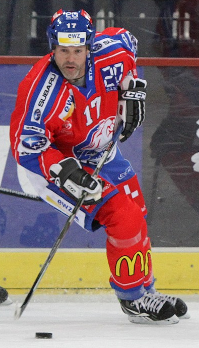 Owen Nolan playing for Swiss club ZSC Lions